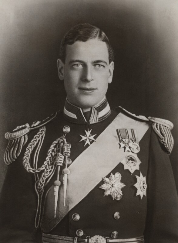 Prince George, Duke of Kent (1902-1942), Naval and air force officer; son of King George V